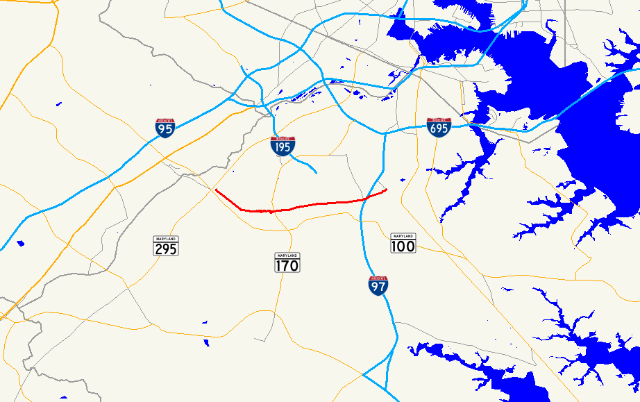 Map of Maryland Route 176